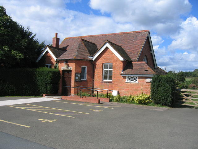 Hampton Lovett village hall. In the lane adjacent to the church.